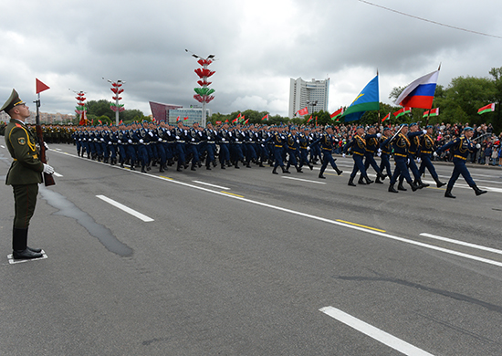 Руководство ВДВ России и Вооруженных сил Белоруссии обсудили в Минске совместную подготовку военнослужащих